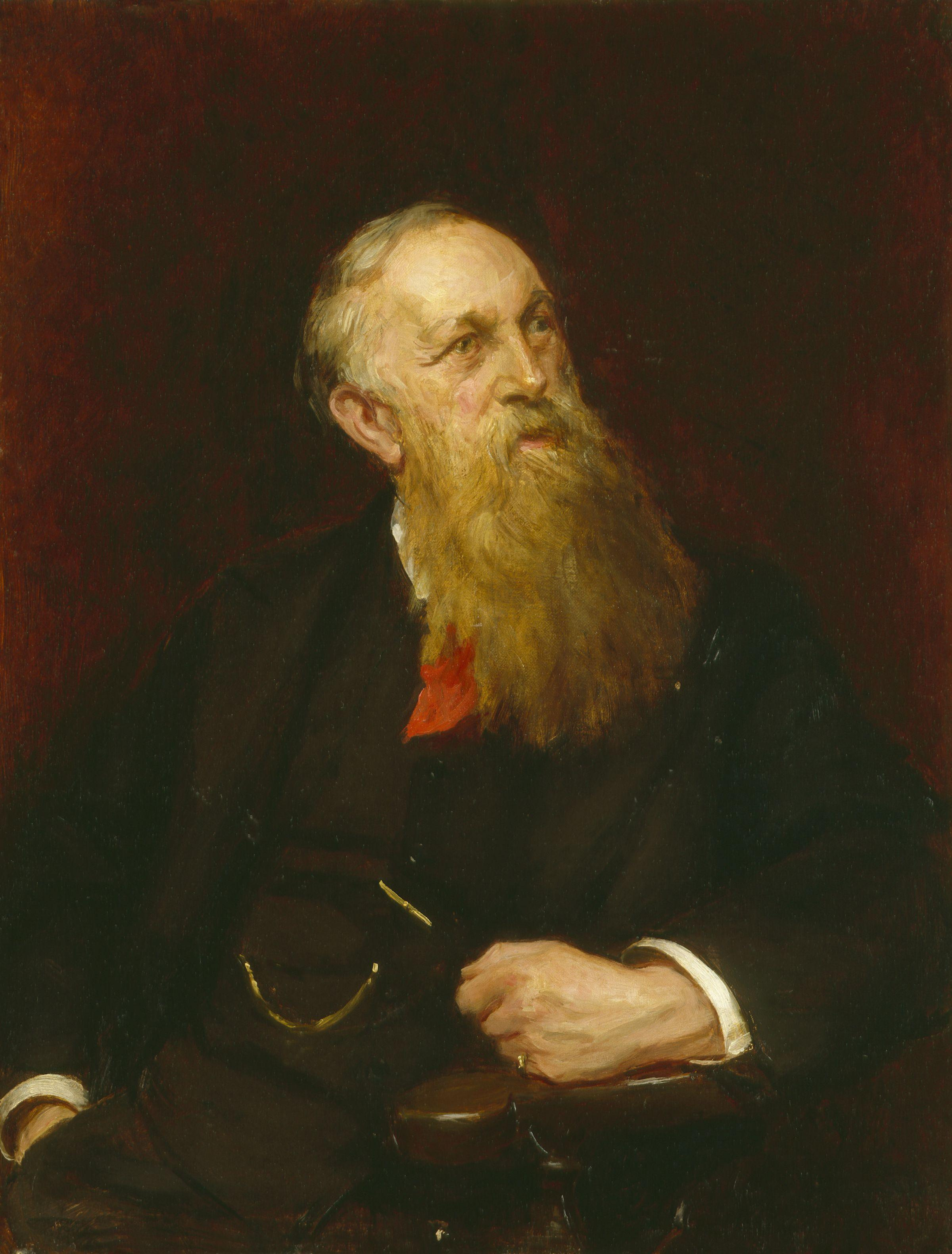 All images in this batch have been confirmed as author died before 1939 according to the official death date listed by the NPG, given to the National Portrait Gallery, London in 2006.